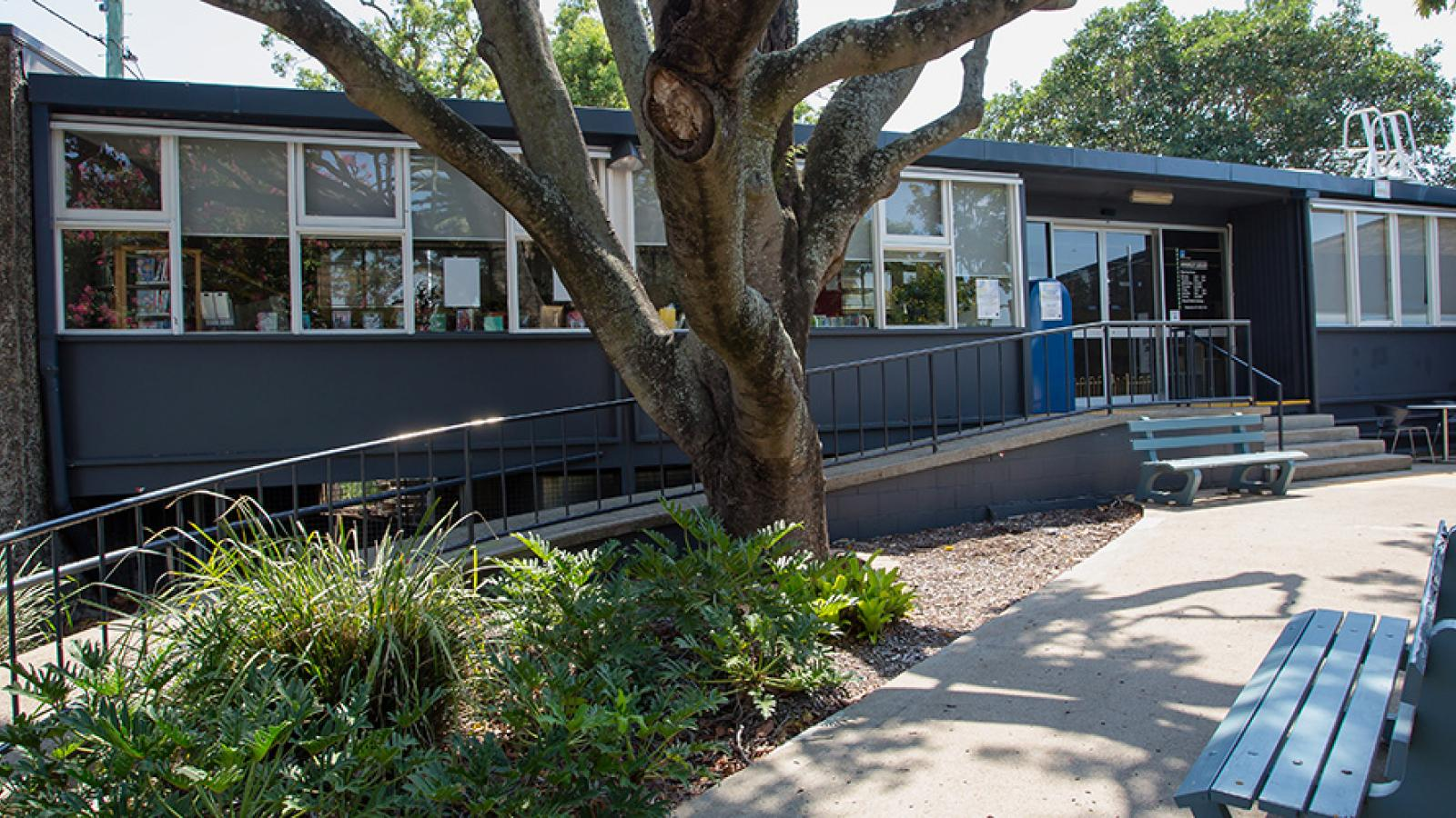 Annerley Library, north-east corner of Ipswich Road and Waldheim Street, Annerley, built by the Brisbane City Council to the design of architect James Birrell